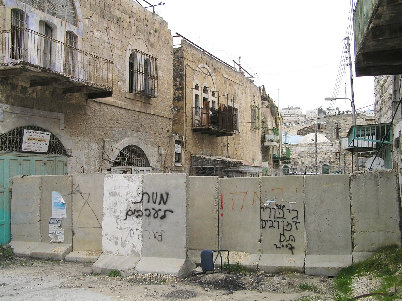 Hebron.